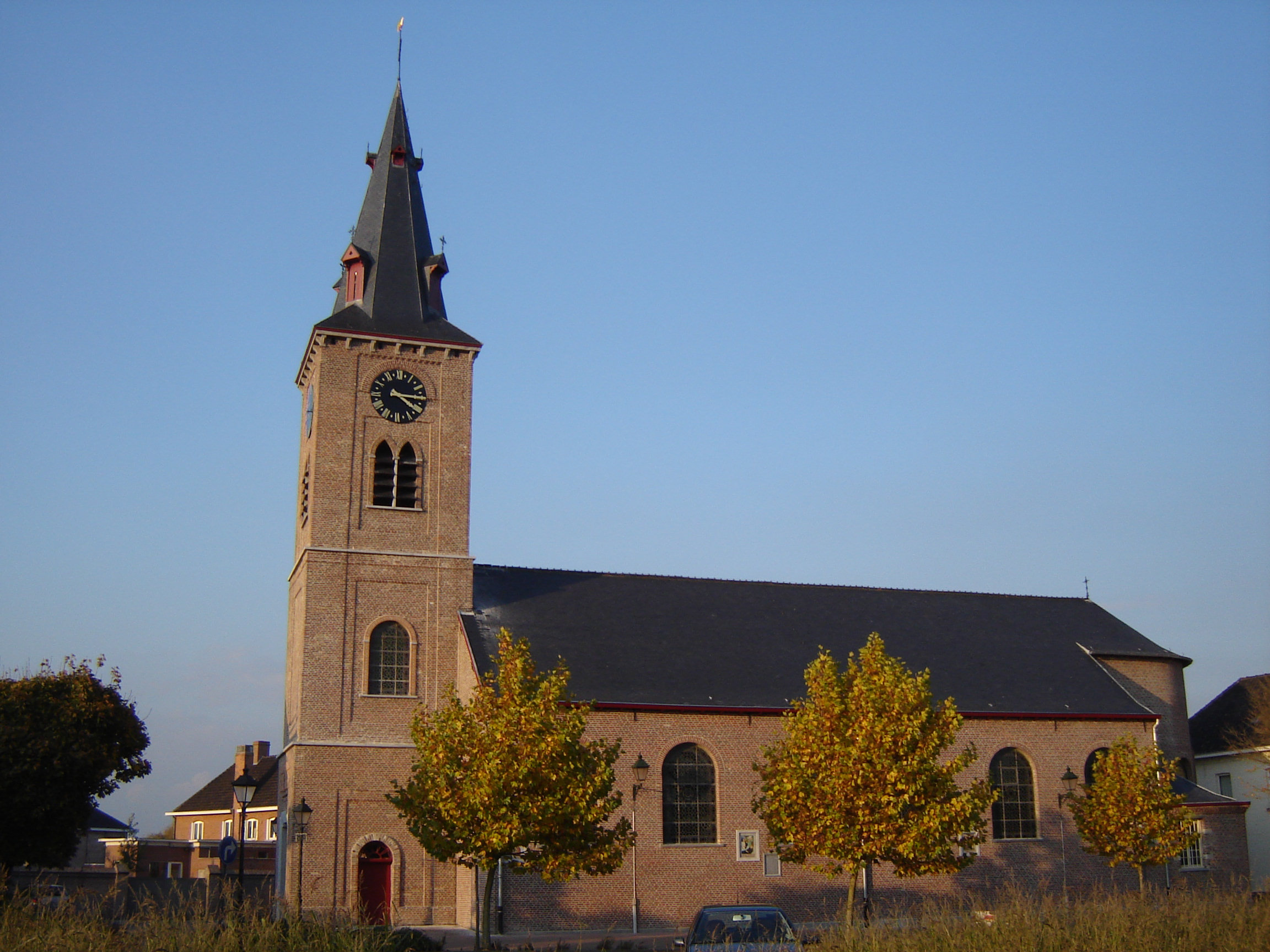 Church of the Nativity of Mary in Schuiferskapelle. Schuiferskapelle, Tielt, West Flanders, Belgium